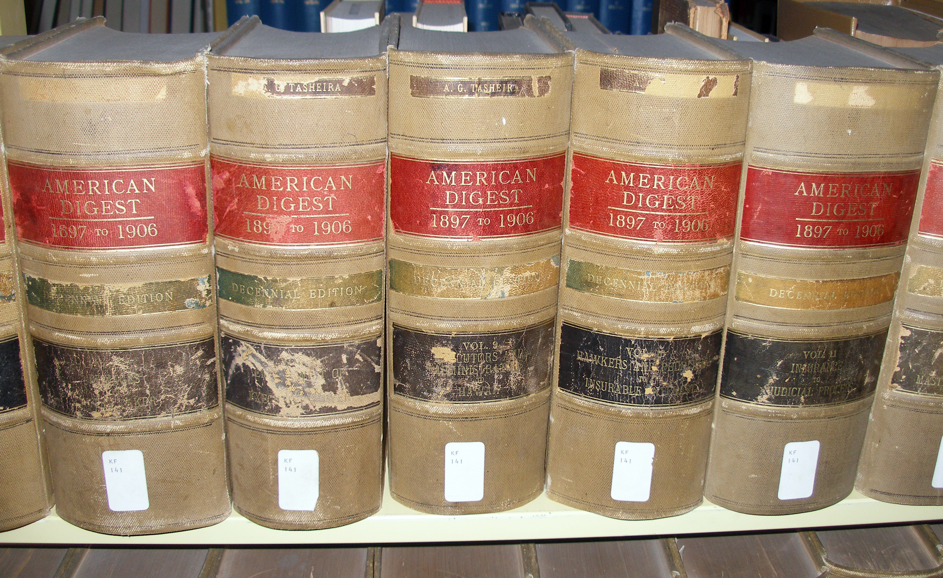 Volumes of the American Digest (Decennial Digest) at the law library of the UC Berkeley School of Law. Photographed by user Coolcaesar on February 13, 2009.